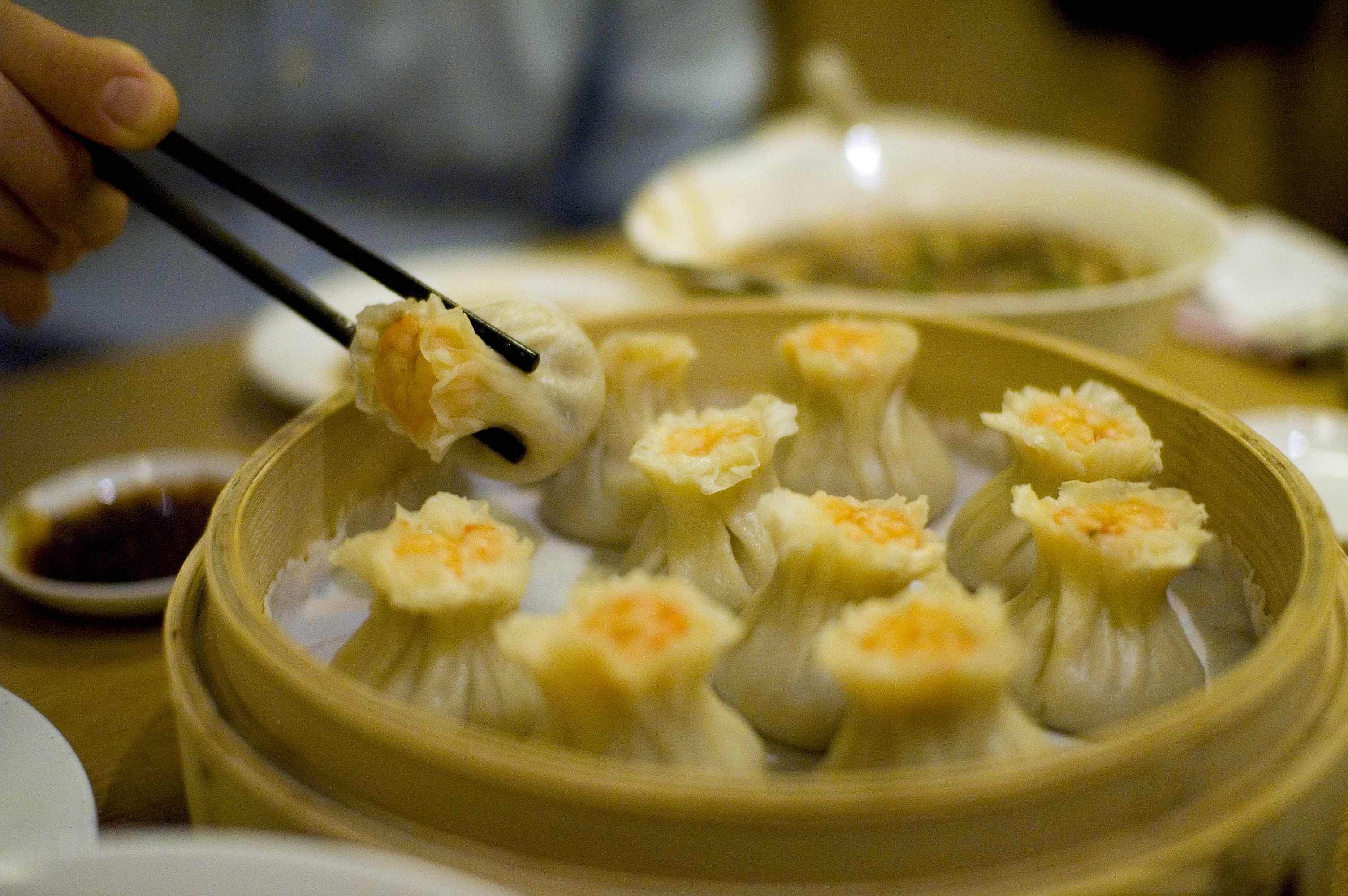 These are so, so good. A different league than any other. Each has its own tiny serving of broth on the inside: pick it up with chopsticks and put it on a spoon, bite a tiny hole to let the broth seep out and enjoy.Best Dumplings in the Worldr